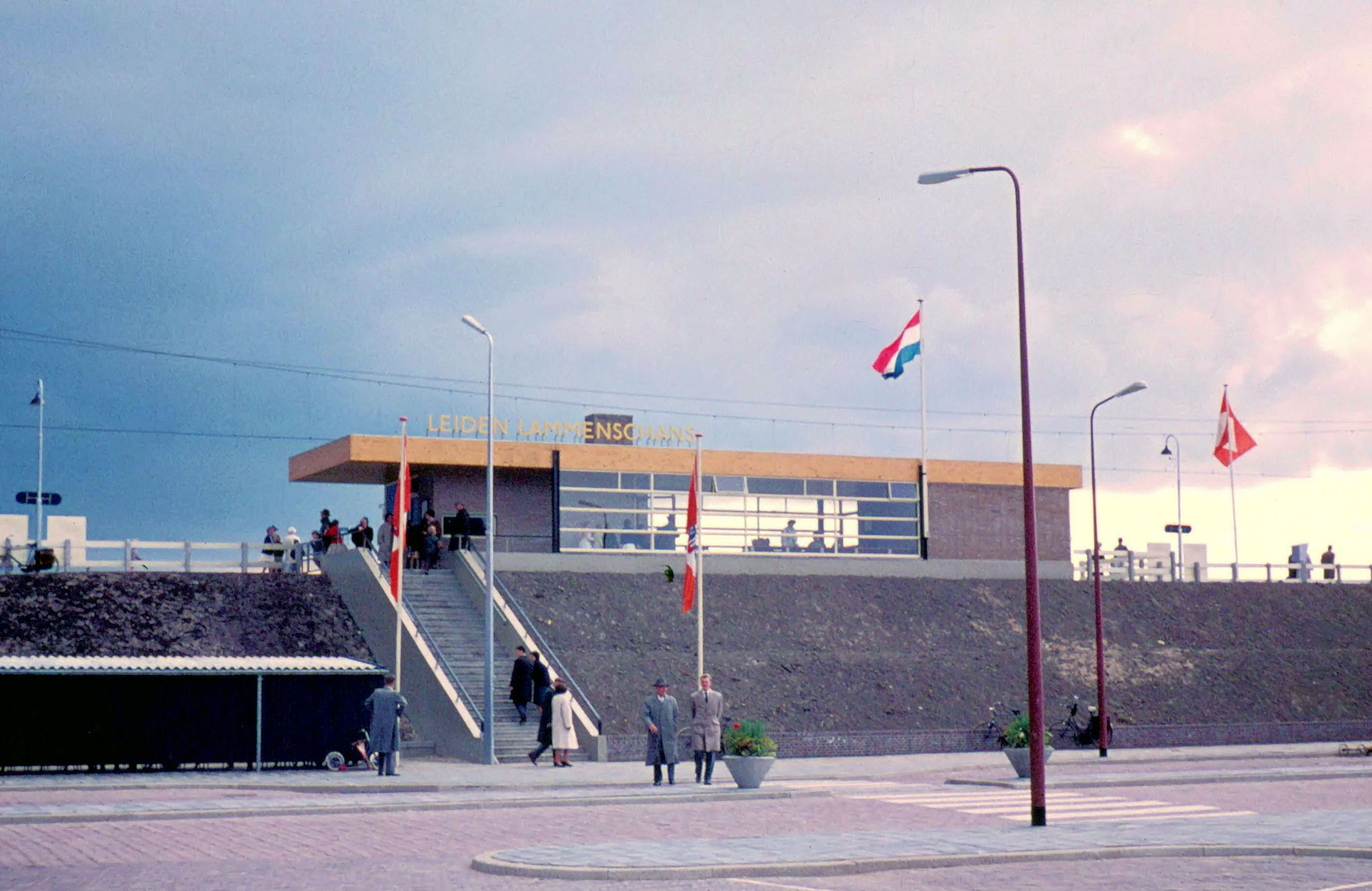 Leiden, station Lammenschans, 1961